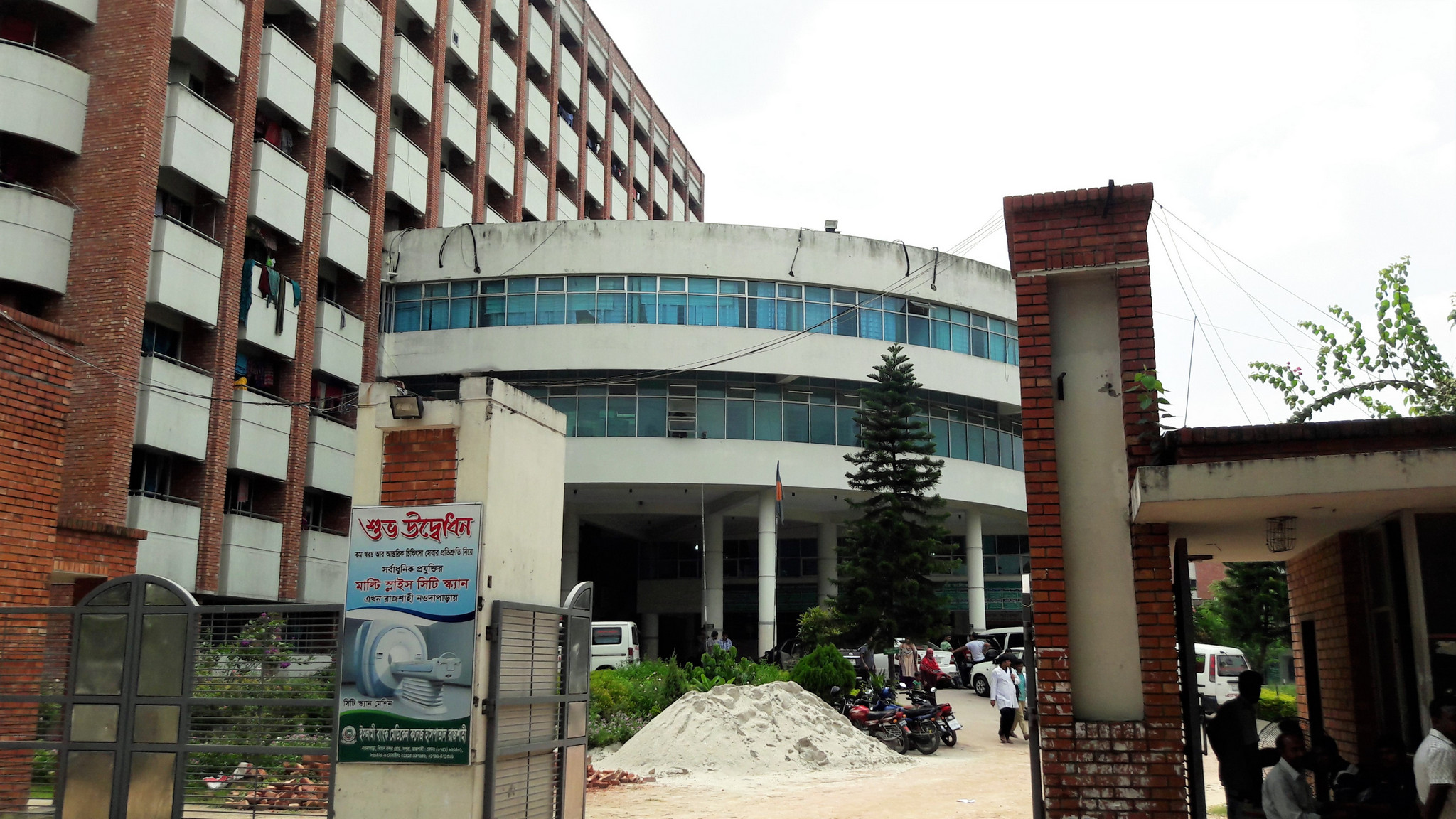 Islami Bank Medical College located in Rajshahi. In short, it is known as IBMC. In 2003, it has started its journey with 50 students.